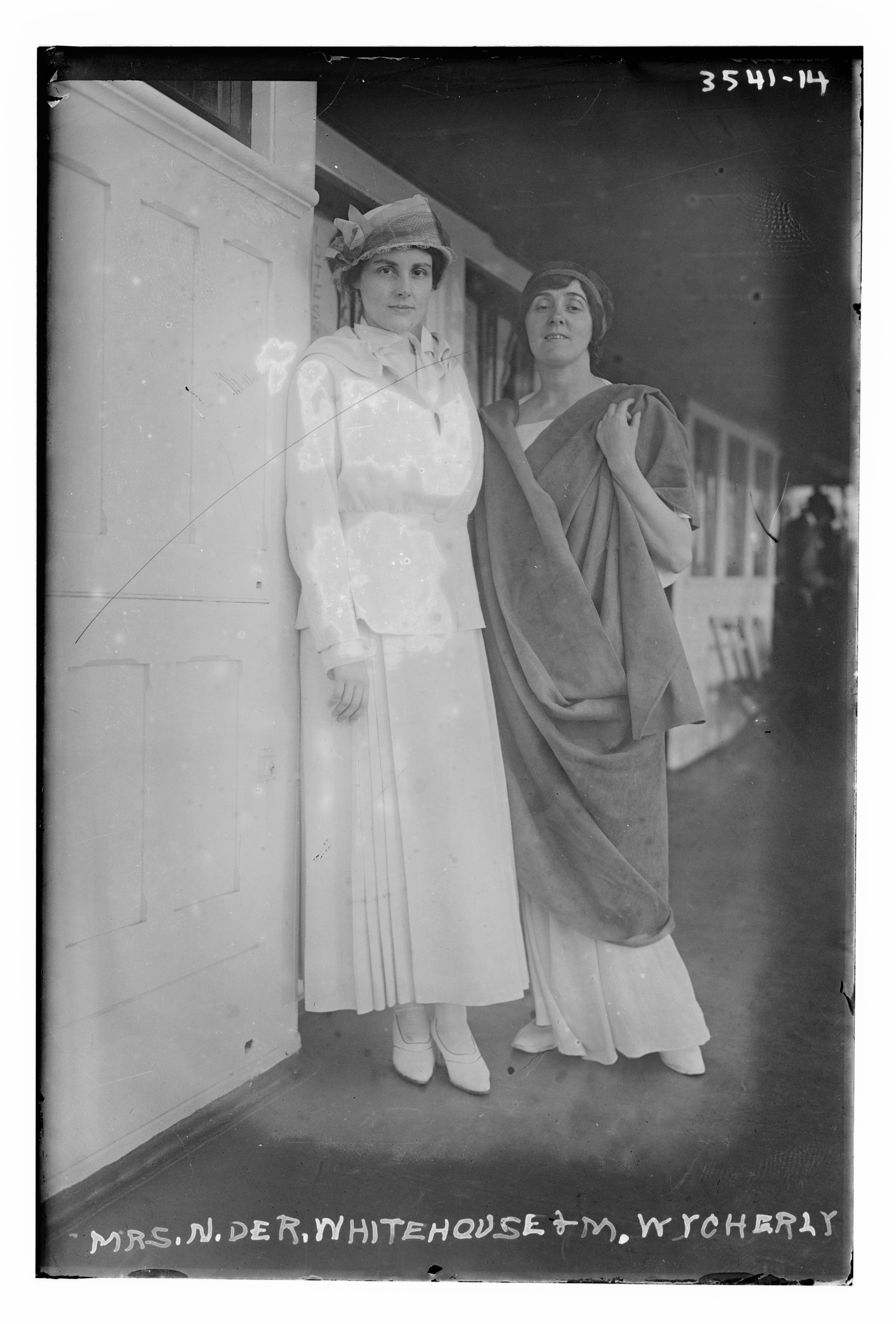 Title: Mrs. N. Der. Whitehouse & M. Wycherly Abstract/medium: 1 negative : glass ; 5 x 7 in. or smaller.